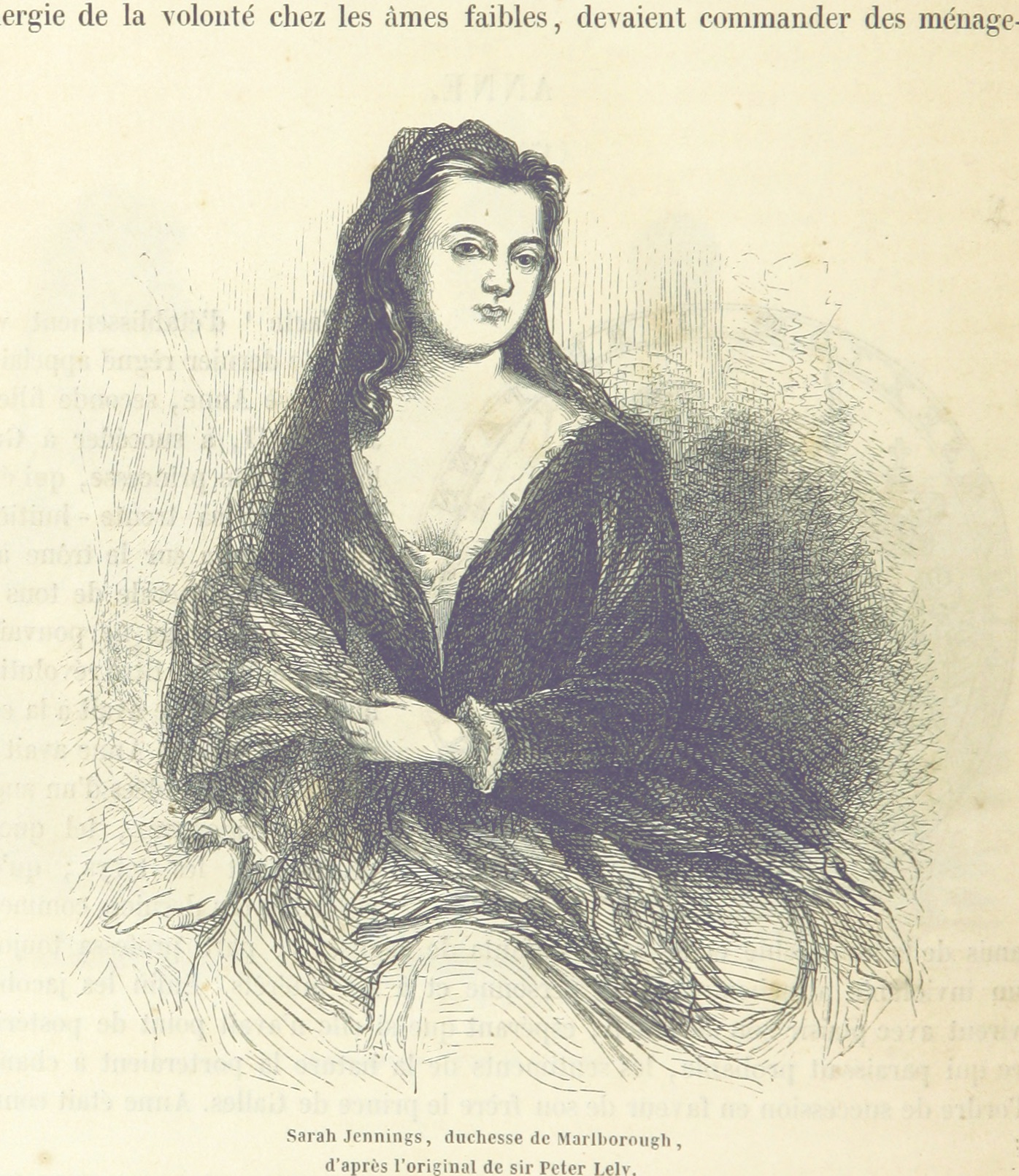 Images part of the Book collections in storage at the British Library Portrait of someone found in a book This file is from the Mechanical Curator collection, a set of over 1 million images scanned from out-of-copyright books and released to Flickr Commons by the British Library. Please add the Flickr page URL for the image Please add the British Library system number for the book This tag does not indicate the copyright status of the attached work. A normal copyright tag is still required. See Commons:Licensing. Order a High Quality Version Here